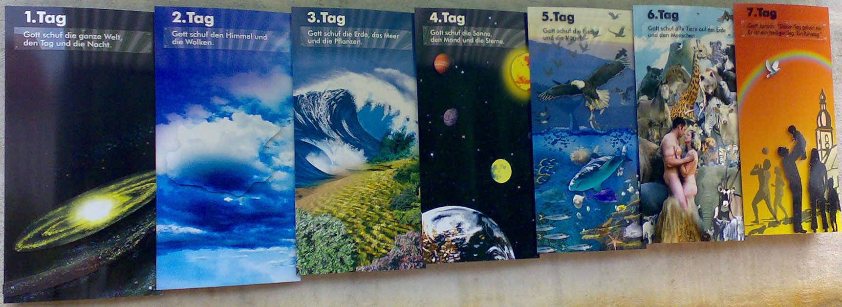 Representation of the creation in the monastery garden pc. Marienstern Panschwitz Kuckau